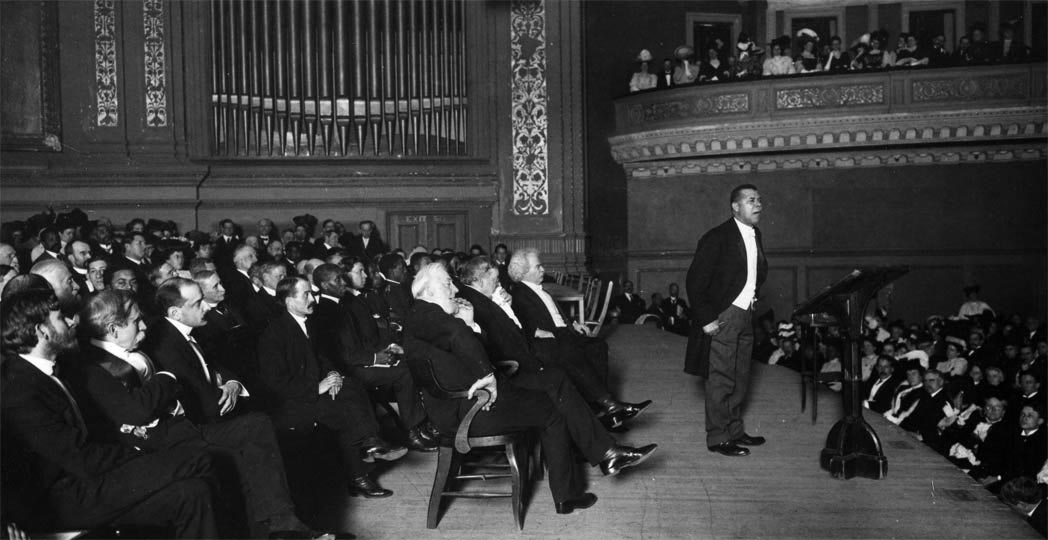 Booker T. Washington holds a Carnegie Hall audience spellbound during his Tuskegee Institute Silver Anniversary Lecture to raise money towards a $1,800,000 goal. Mark Twain, Joseph H. Choate, Robert Curtis Ogden also spoke. January 23, 1906 Mark Twain is seated just behind Mr. Washington.